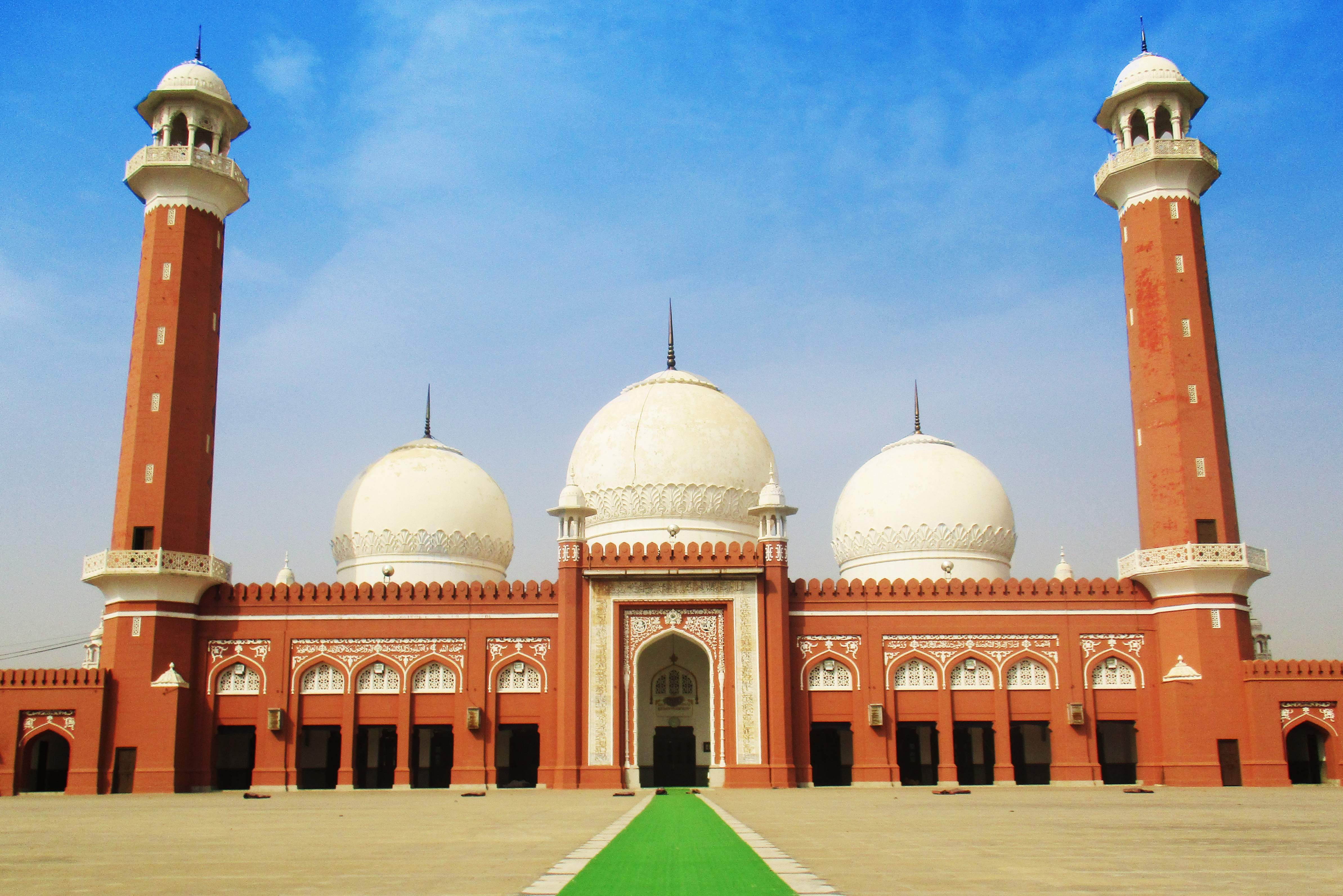 Central Mosque Wah Cantt, Built in 17th Century by Mughal emperors boast of grandeur and fine architecture. The mosque is located in the center of Pakistani city of Wah Cantt with a capacity of thousands of worshipers to pray. The architecture holds much resemblance with Badshahi Mosque situated in Lahore.